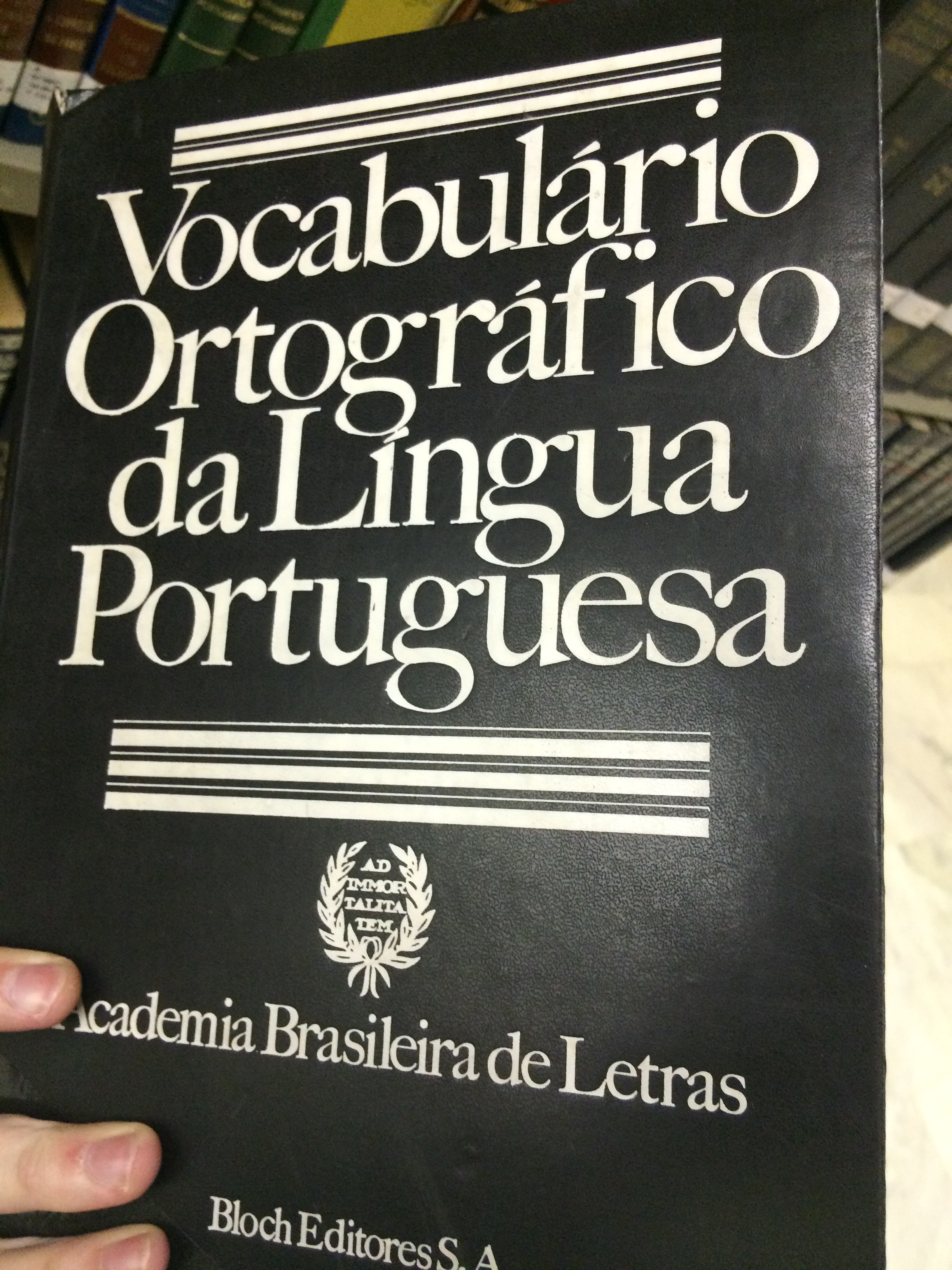 VOLP - Vocabulário Ortográfico da Língua Portuguesa da ABL (Academia Brasileira de Letras)